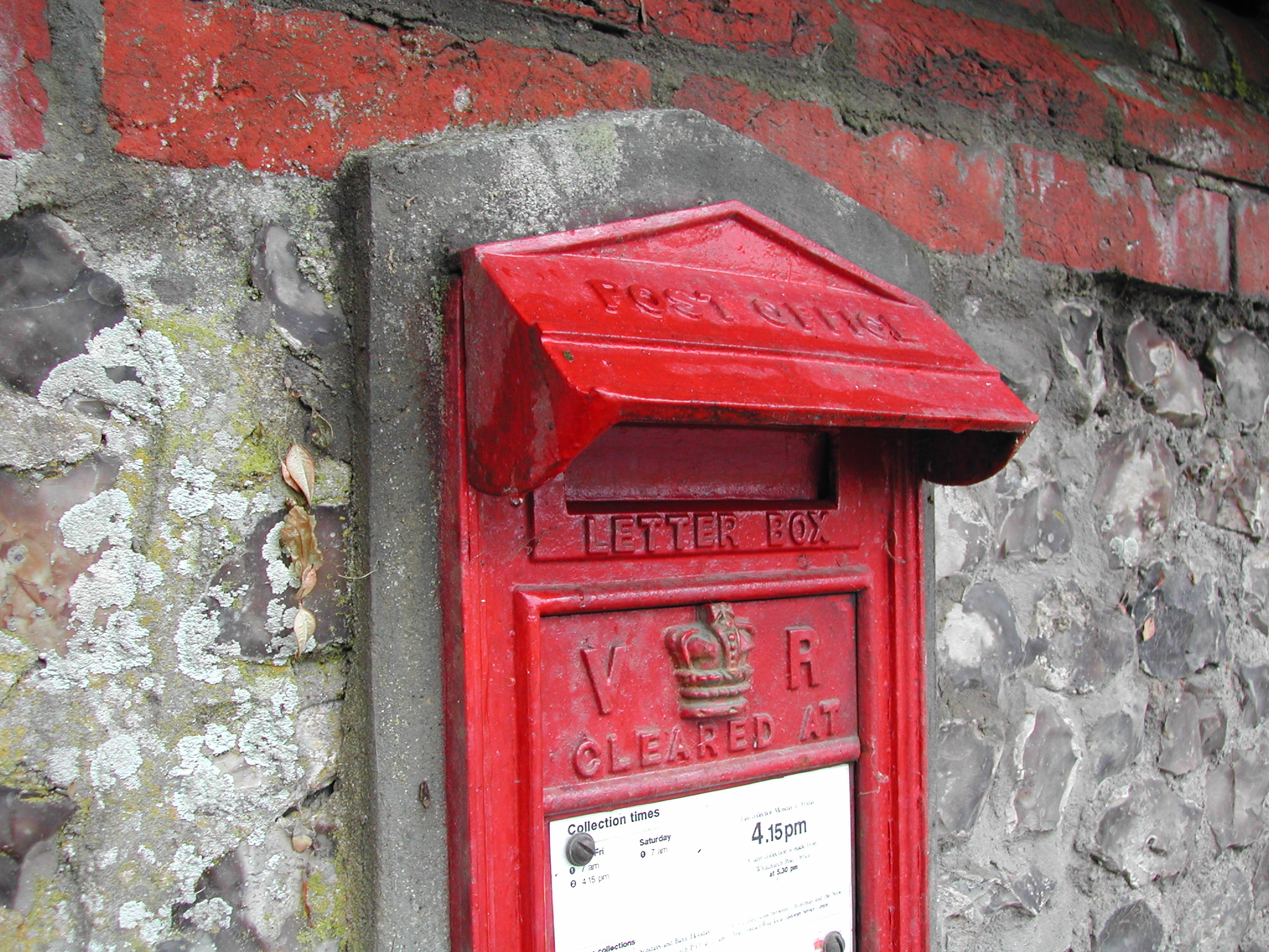 Detail of Victorian 2nd National standard post box